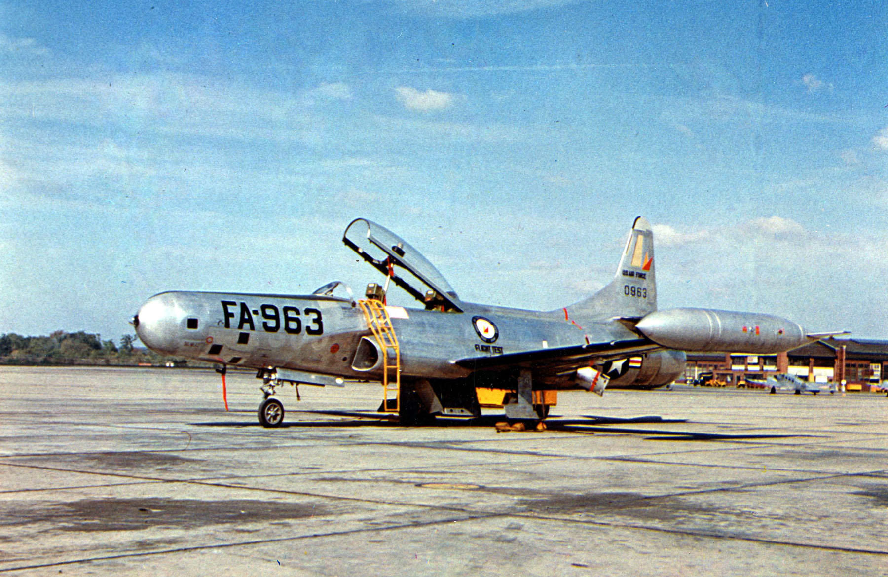 F-94C serial number 50-963 was experimentally fitted with an enlarged nose in which reconnaissance cameras were mounted in place of the interceptor's radar and rockets. This plane was re-designated EF-94C, the E standing for *Exempt*. E was used rather than the regular R for Reconnaissance because this aircraft was to be used strictly for research purposes.